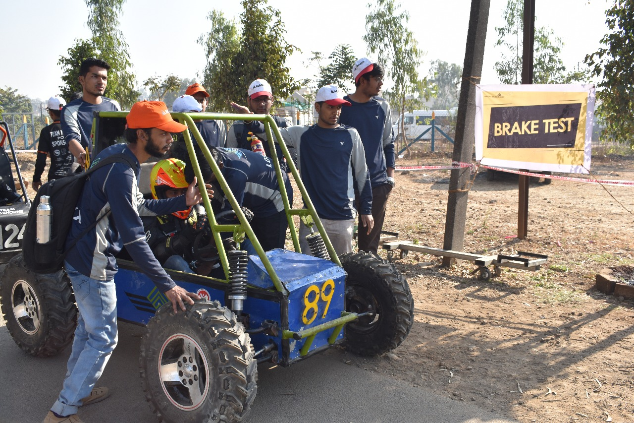 The IIT Bhilai Motorsport team heading towards the brake test phase at the Enduro Student 2019 event